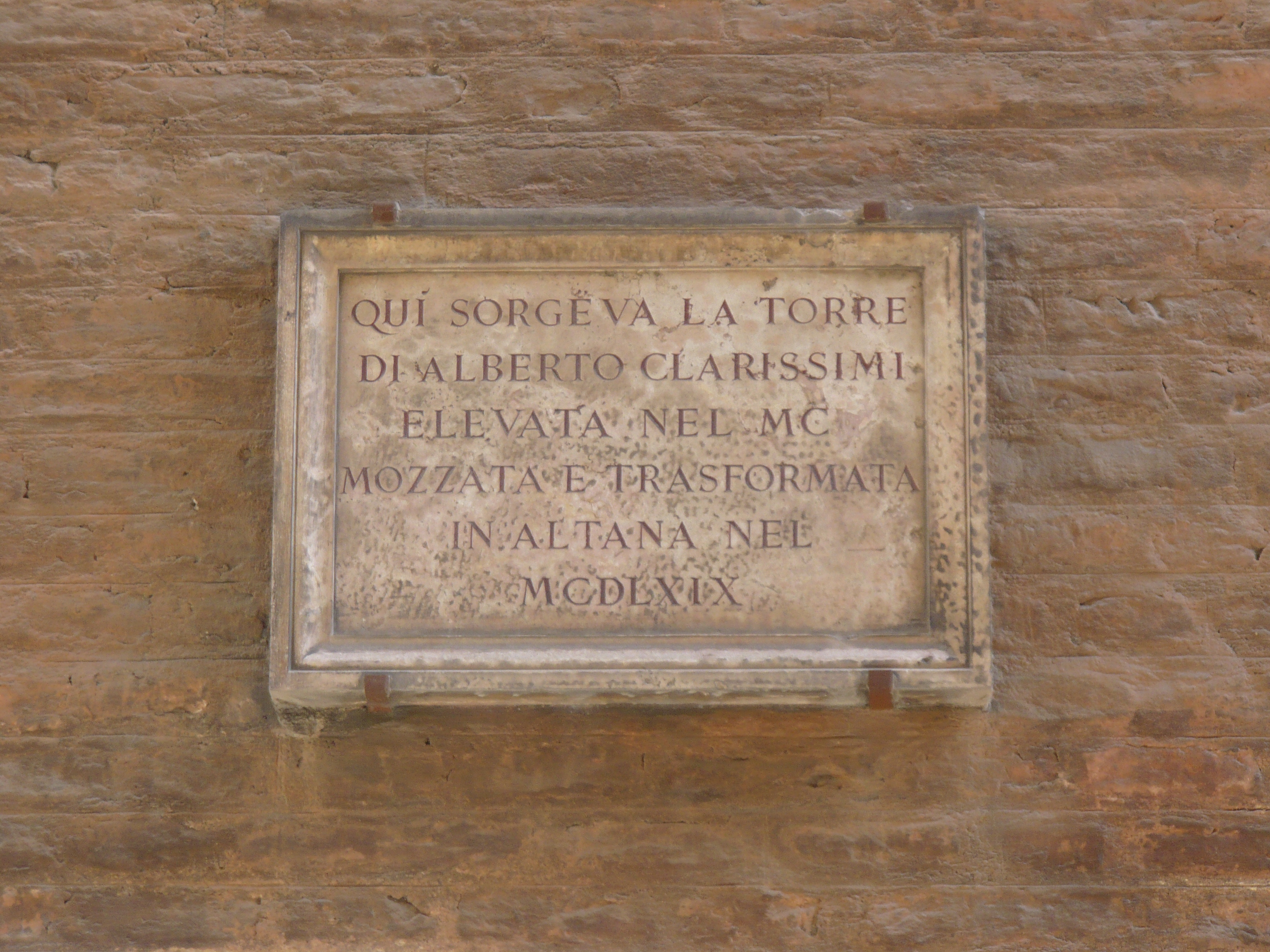 Image of Bertolotti's Tower plaque